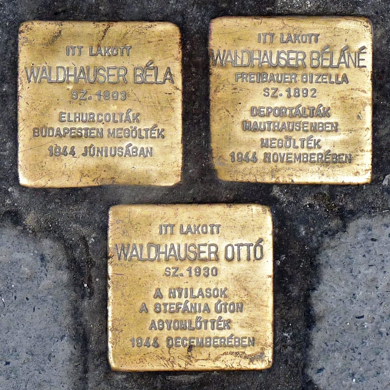 Stolpersteins in memory of Mr. Béla Waldhauser (1893-1944), his wife, Mrs. Gizella Freibauer (1892-1944) and their son Mr. Ottó Waldhauser (1930-1944), at the entrance of their former domicile. (Budapest, District XIV, Ilka Street Nr 36).